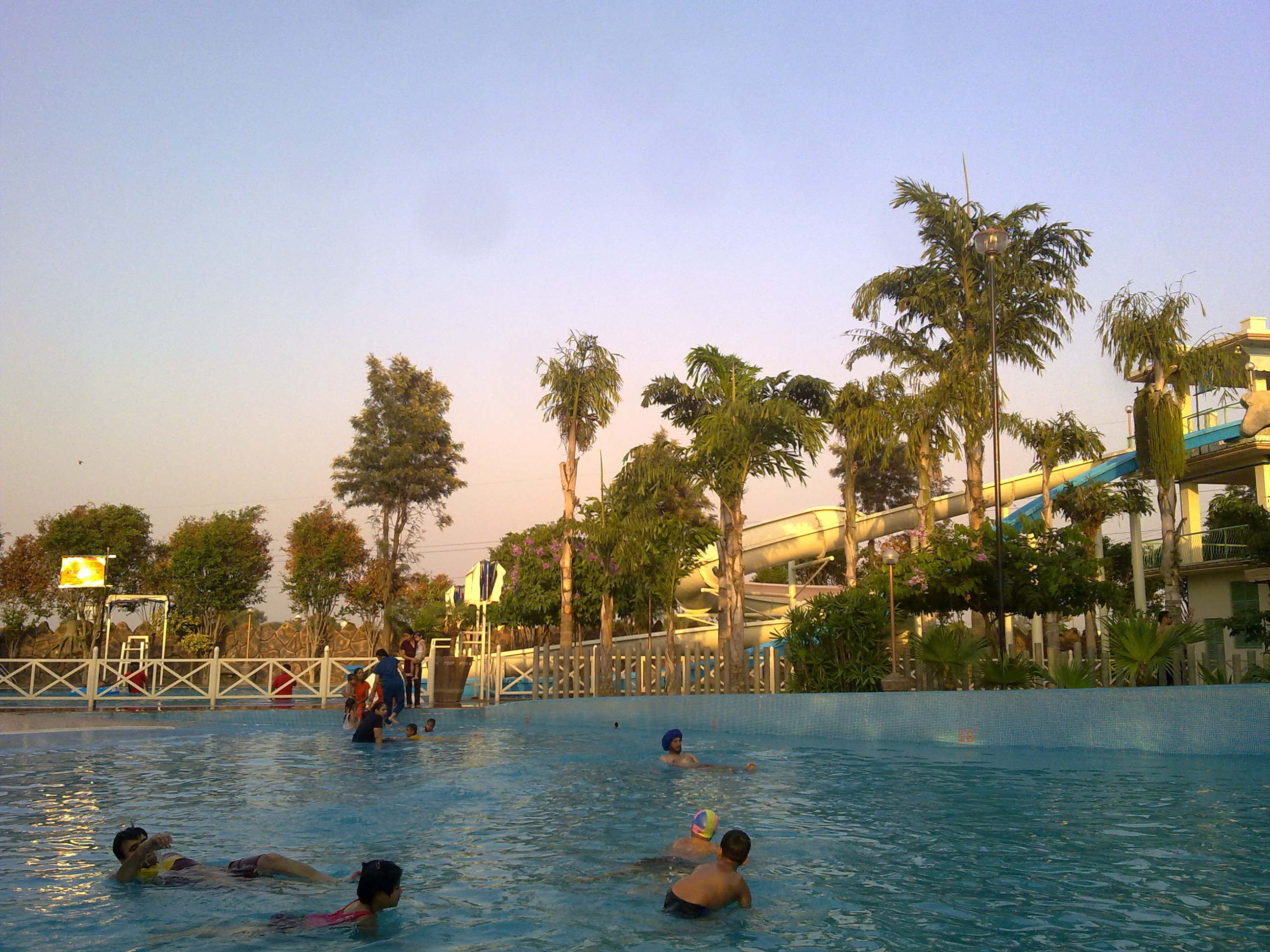 This Image is Of WonderLand's Water Park In the Evening Clicked By Manveer Khurana